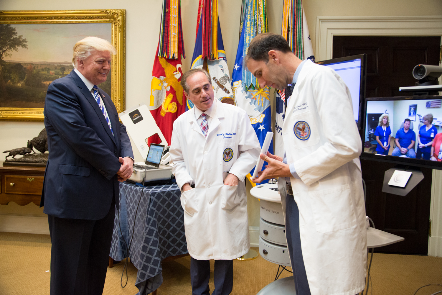 Secretary Shulkin with President Trump at the White House to make a major announcement on Telehealth.